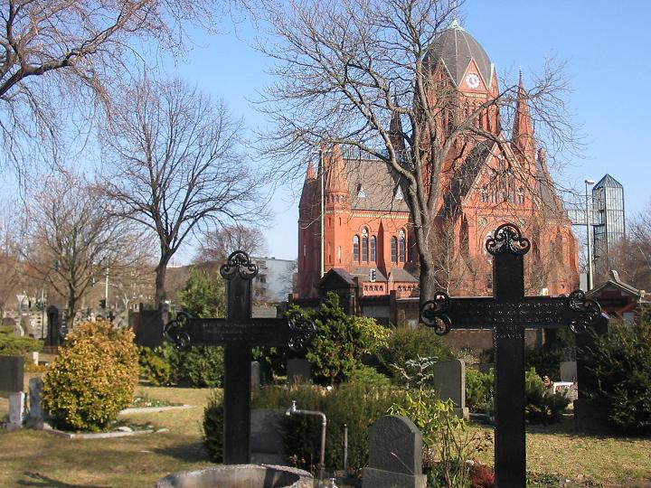 Graveyards „Friedhöfe am Halleschen Tor“, Berlin-Kreuzberg. In the background the church „Kirche zum Heiligen Kreuz“